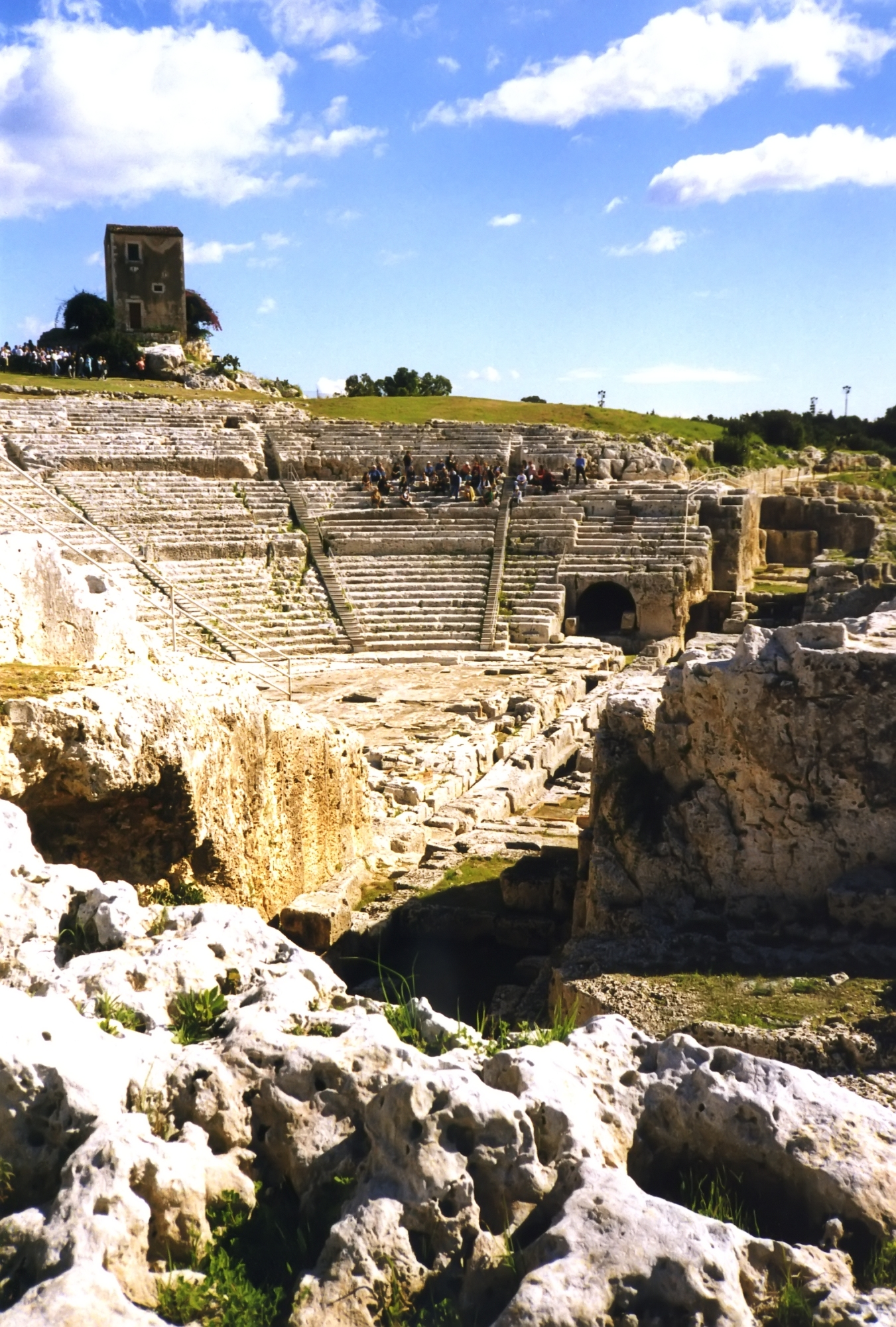 The Greek theatre in Syracuse, Sicily, Italy.